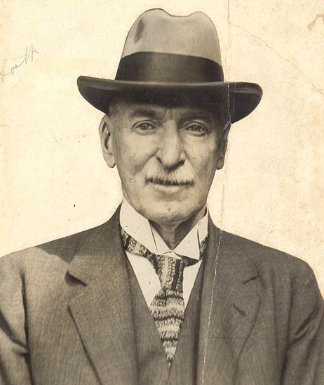 Image of Frederick Robert "Fred" Spofforth (9 September 1853 – 4 June 1926)